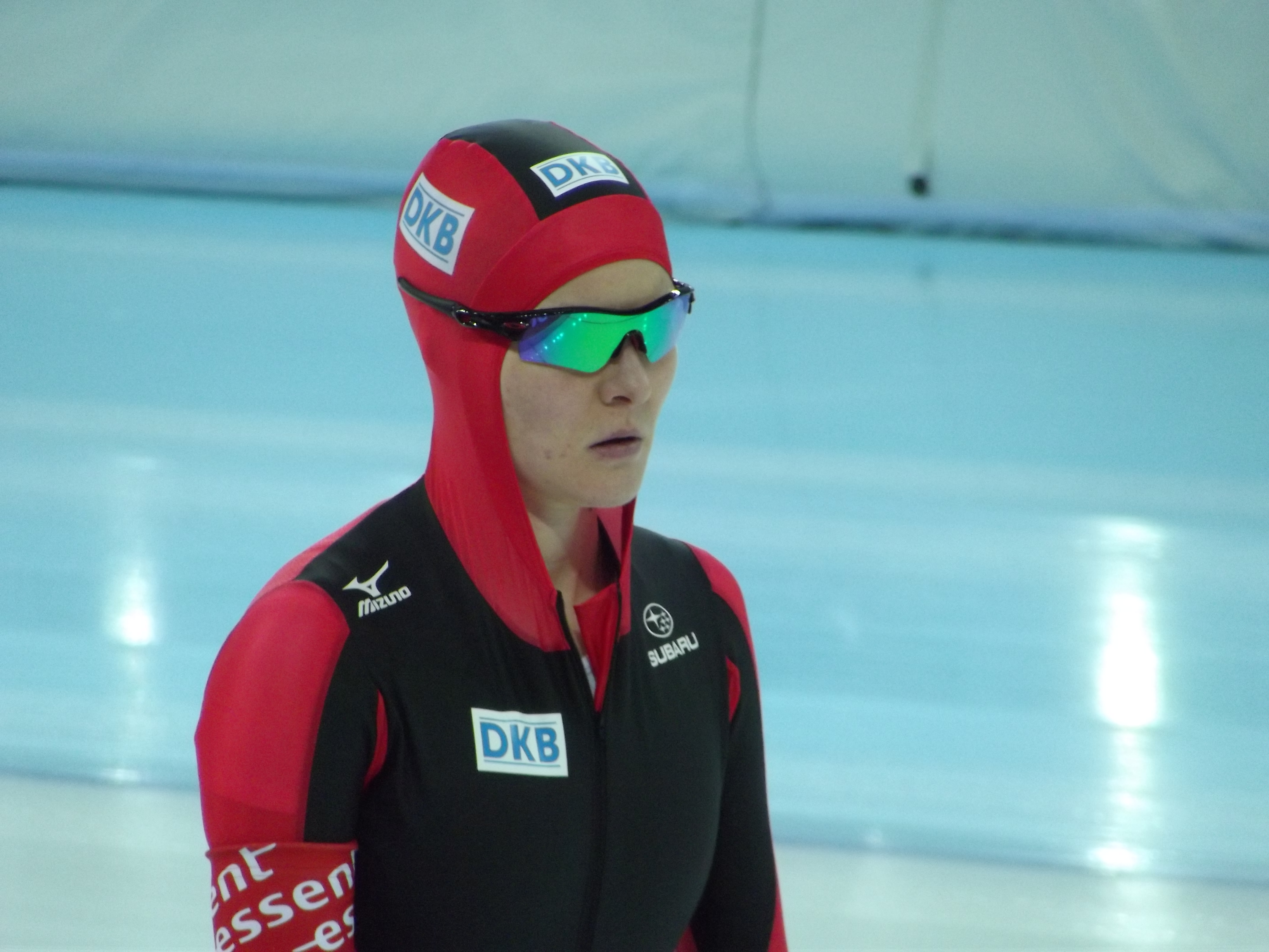 2013 World Single Distance Speed Skating Championships